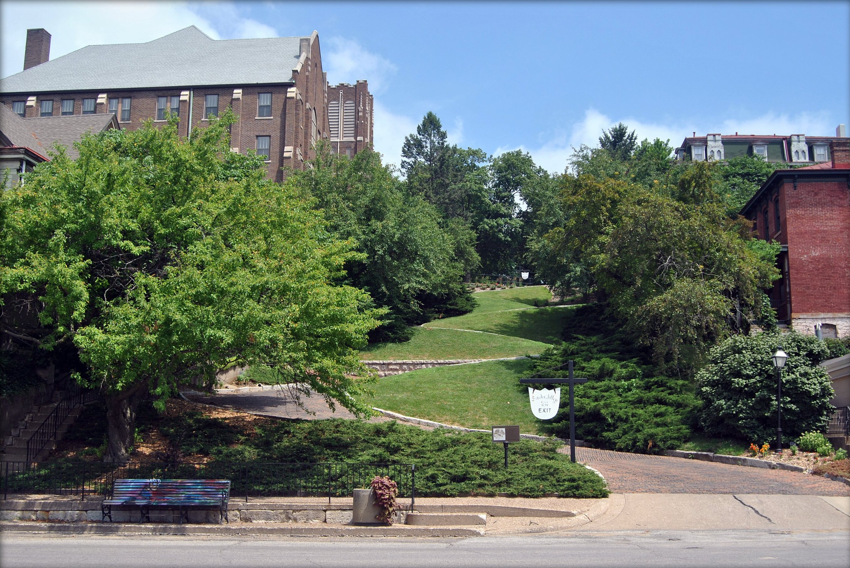 Snake Alley in Burlington, Iowa, United States, showing the historic buildings surrounding the alley which comprise the Snake Alley Historic District.